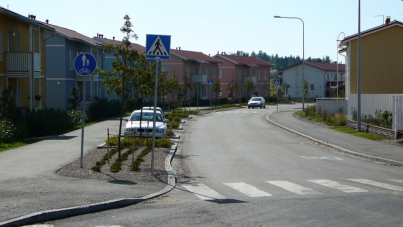 Vantinlaaksontie street in Vanttila, near Kauklahti, Espoo, Finland